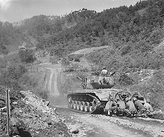 Marine infantrymen take cover behind a M26 Pershing tank while it fires on Communist troops ahead. Hongchon Area